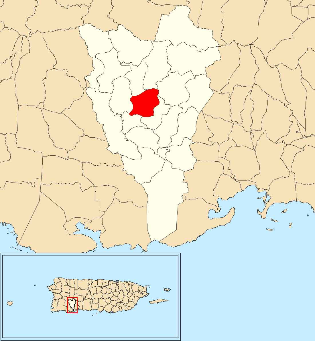 Algarrobo, Yauco, Puerto Rico locator map